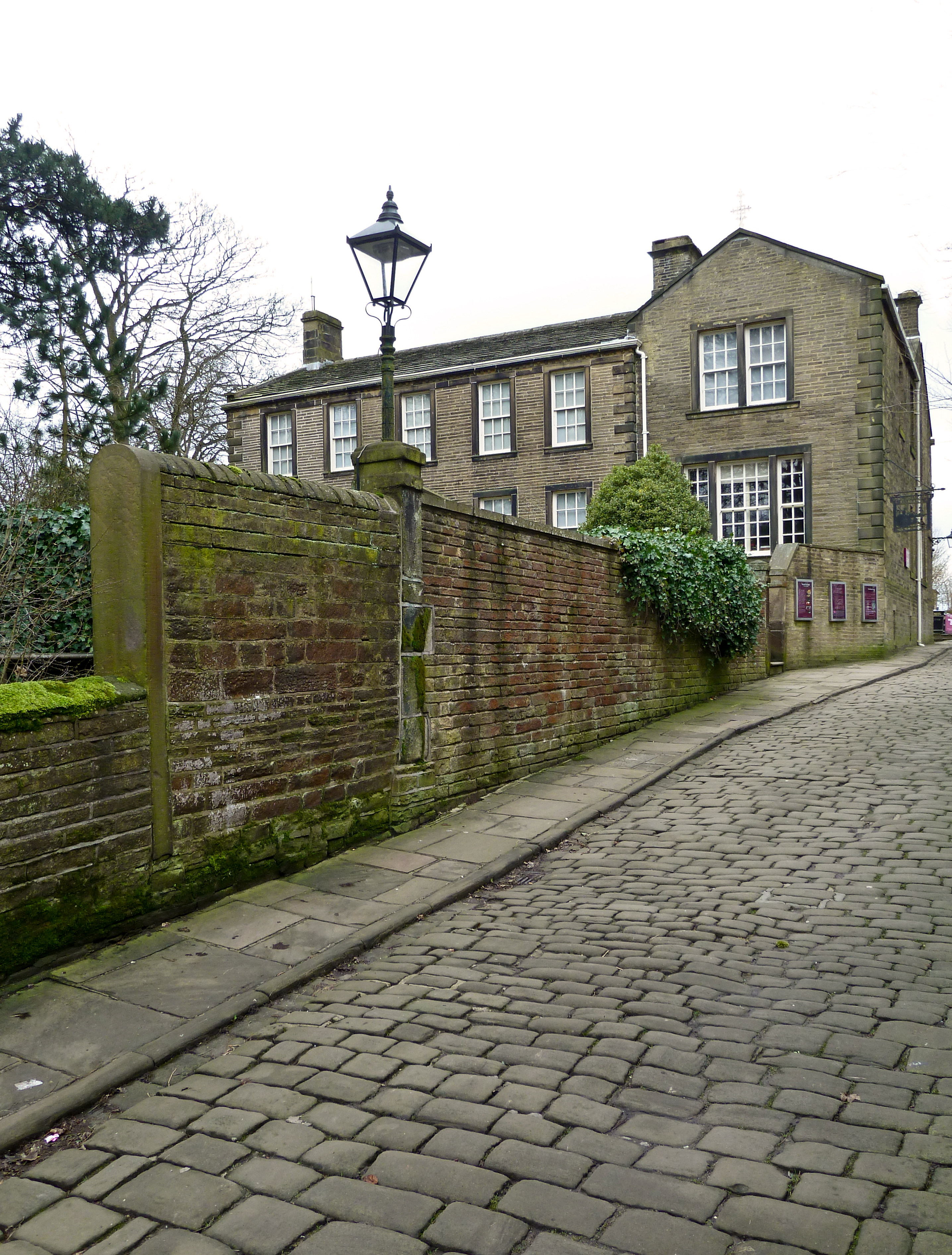 Haworth Parsonage